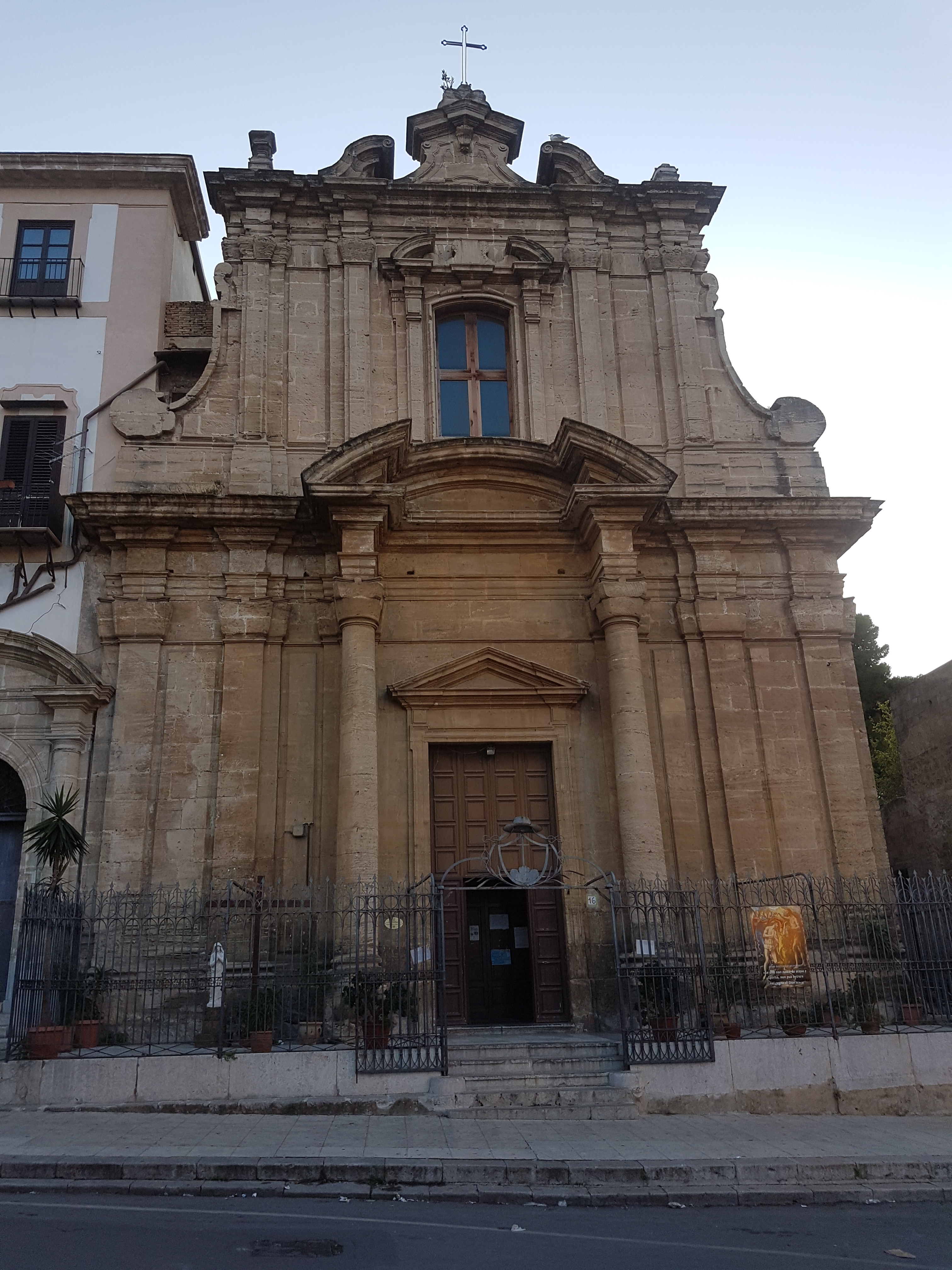 Facade of San Giorgio in Kemonia, Palermo, Sicily, Italy